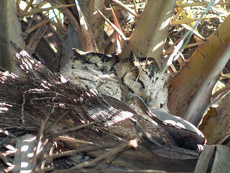 Indian Scops-owl (Otus bakkamoena) at Bharatpur, Rajasthan, India.